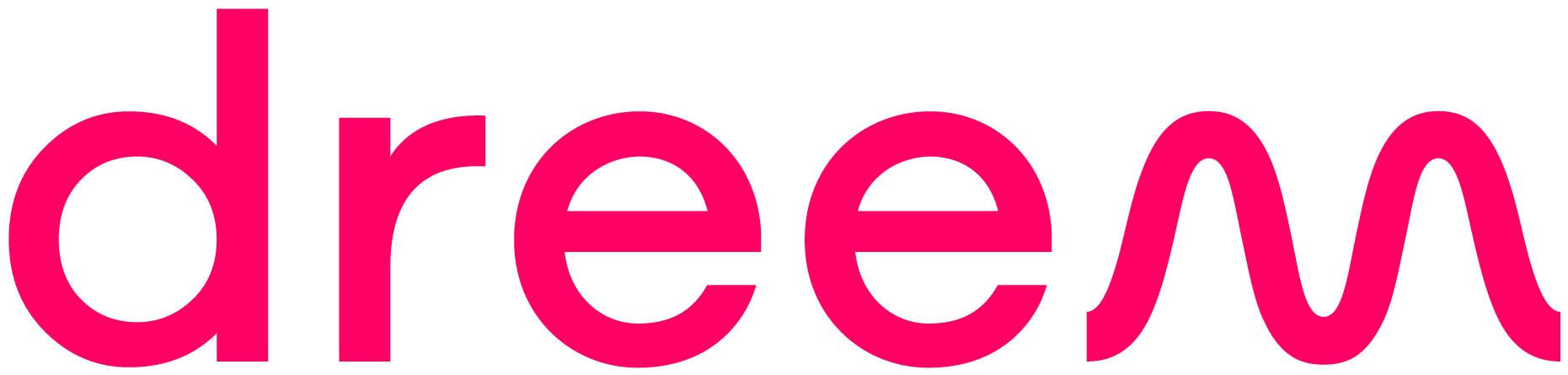 Logo of "Dreem", a sleep device that monitors, analyzes, and claims to enhance quality of sleep.